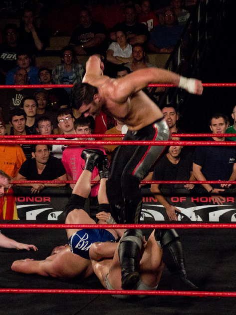 Eddie Edwards delivering a double stomp from the top rope to Davey Richards